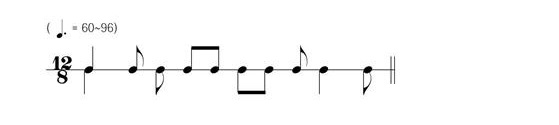 Sheet music of Joongjoongmorie Jangdan